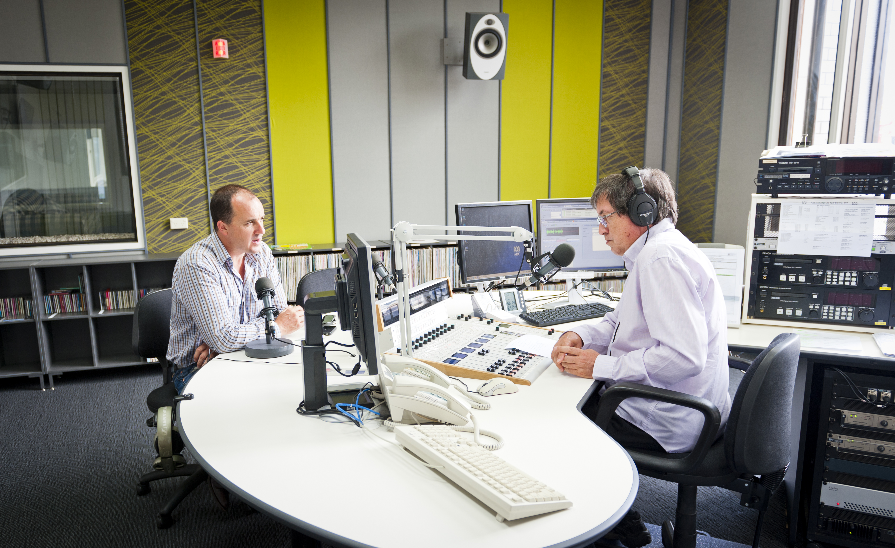 Jeremy Buckingham is interviewed in the swanky ABC Radio studio in Broken Hill